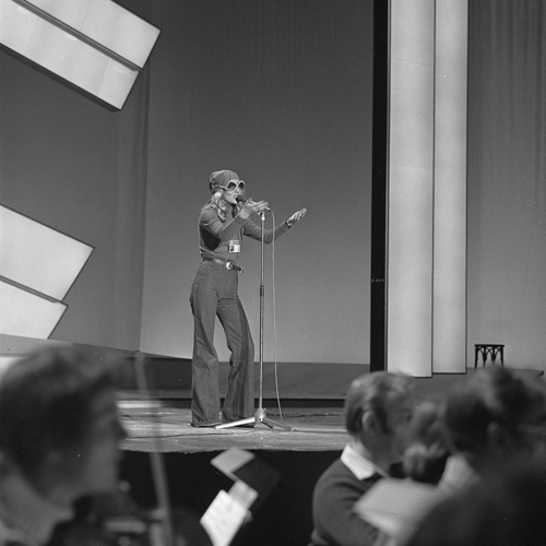 Anne-Karine Strøm at a rehearsal for the Eurovision Song Contest 1976.